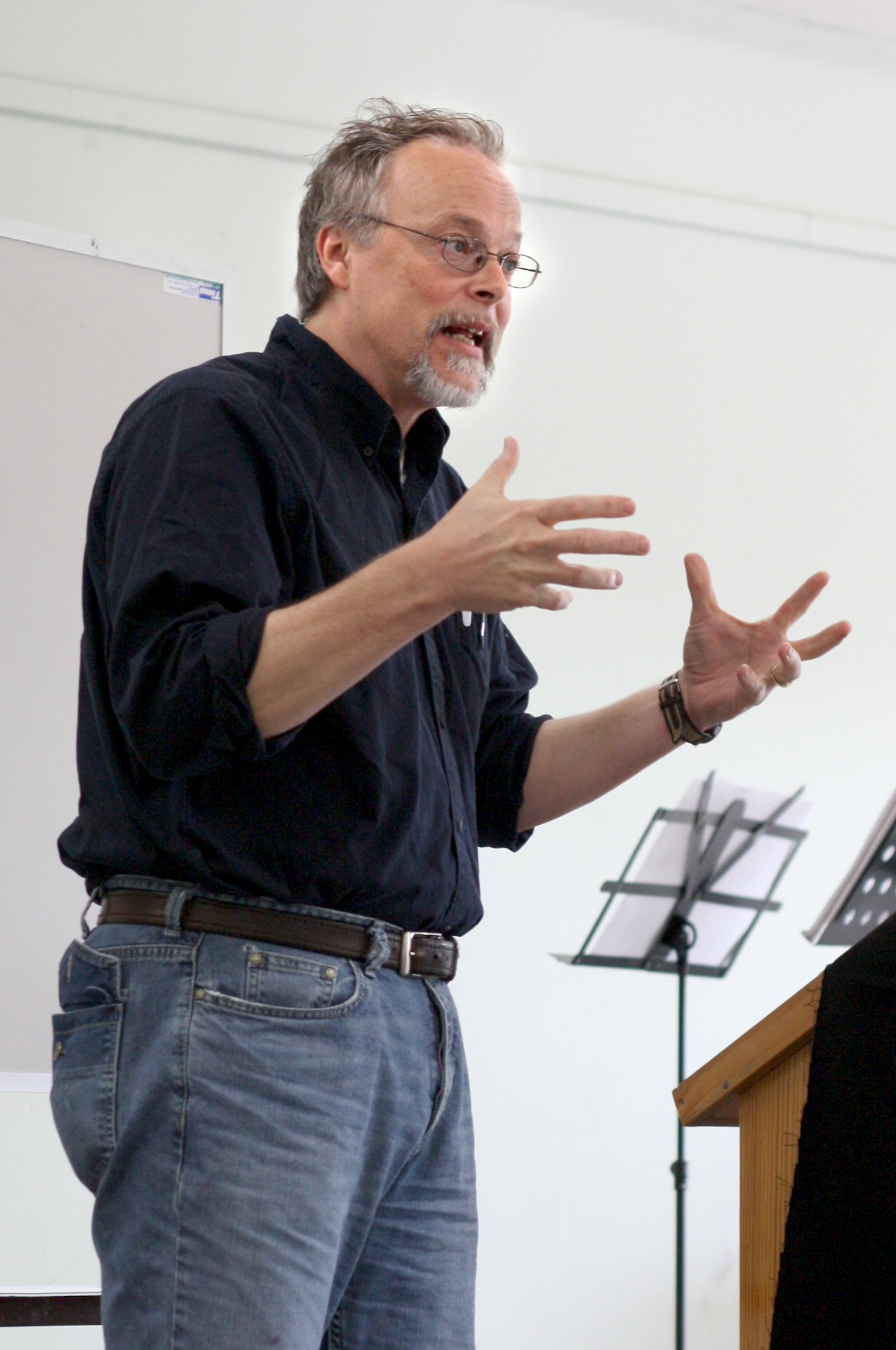 Daniel L. Smith-Christopher as keynote speaker at the School of Discipleship conference in 2009, held in Canberra, Australia.